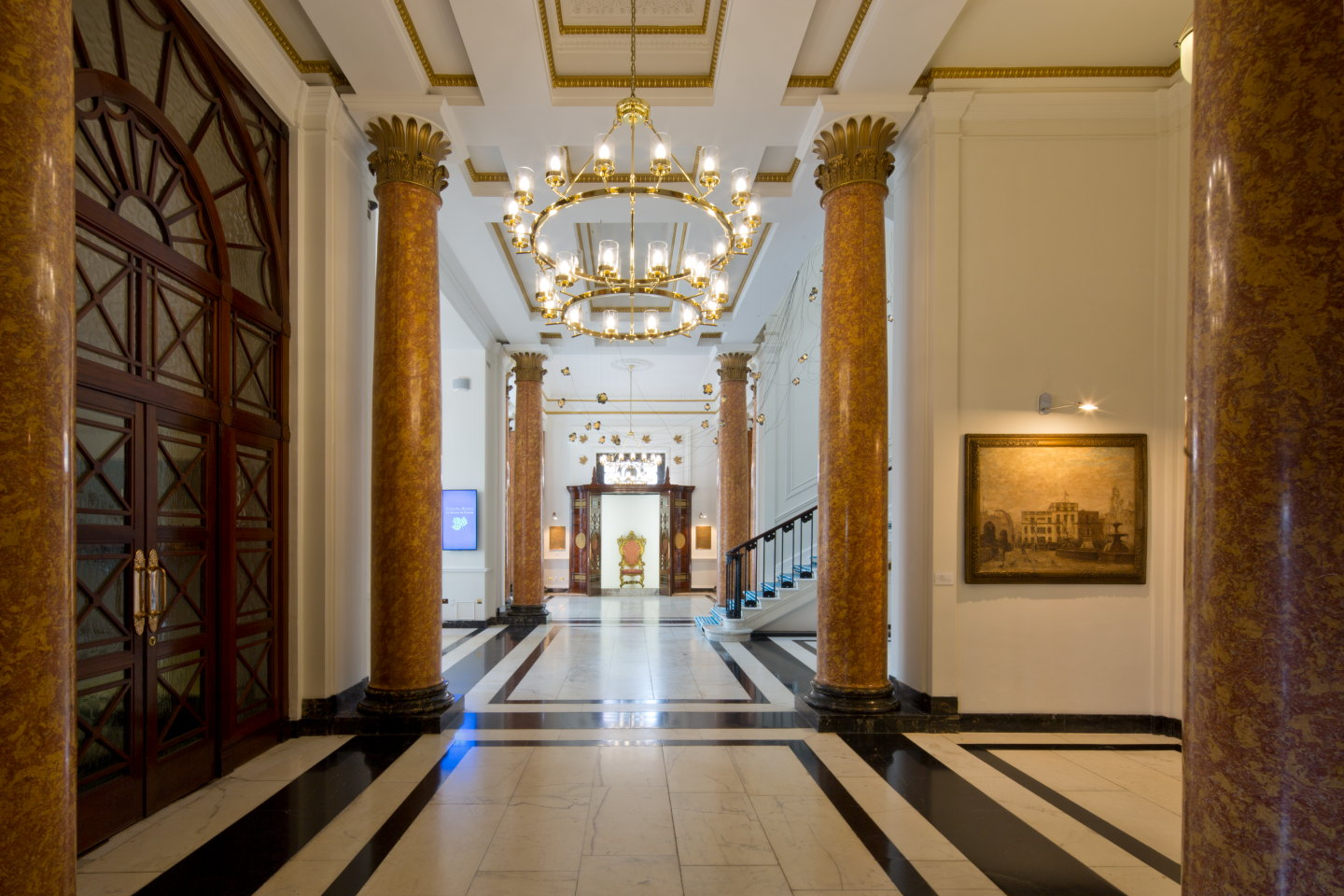 Interior entrance of Canada House, Trafalgar Square